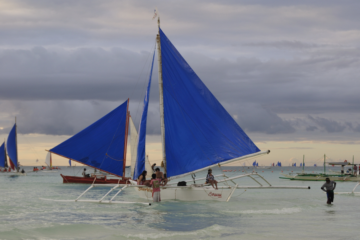 Paraw sailboat in Boracay